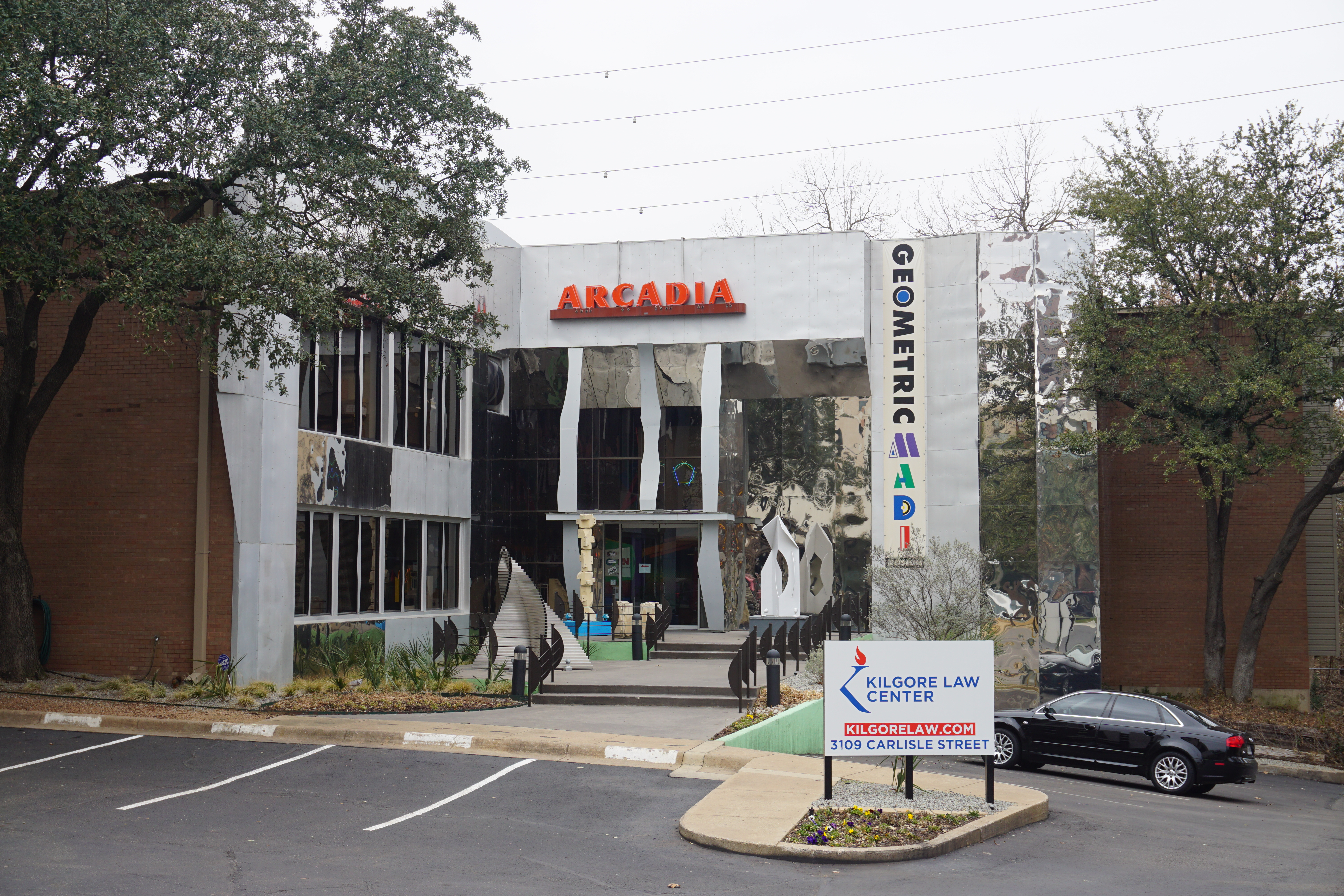 The exterior of the Museum of Geometric and MADI Art in Dallas, Texas (United States).